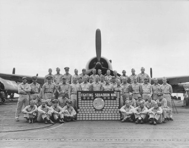 The pilots of U.S. Navy fighter squadron VF-9 with their "scoreboard" of their tour aboard the aircraft carrier USS Essex (CV-9) in 1943-44 in front of one of the squadron's Grumman F6F-3 Hellcat fighters.